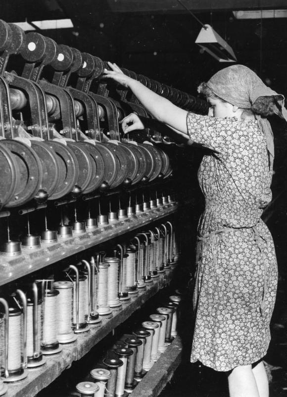 Flyer spinning of jute